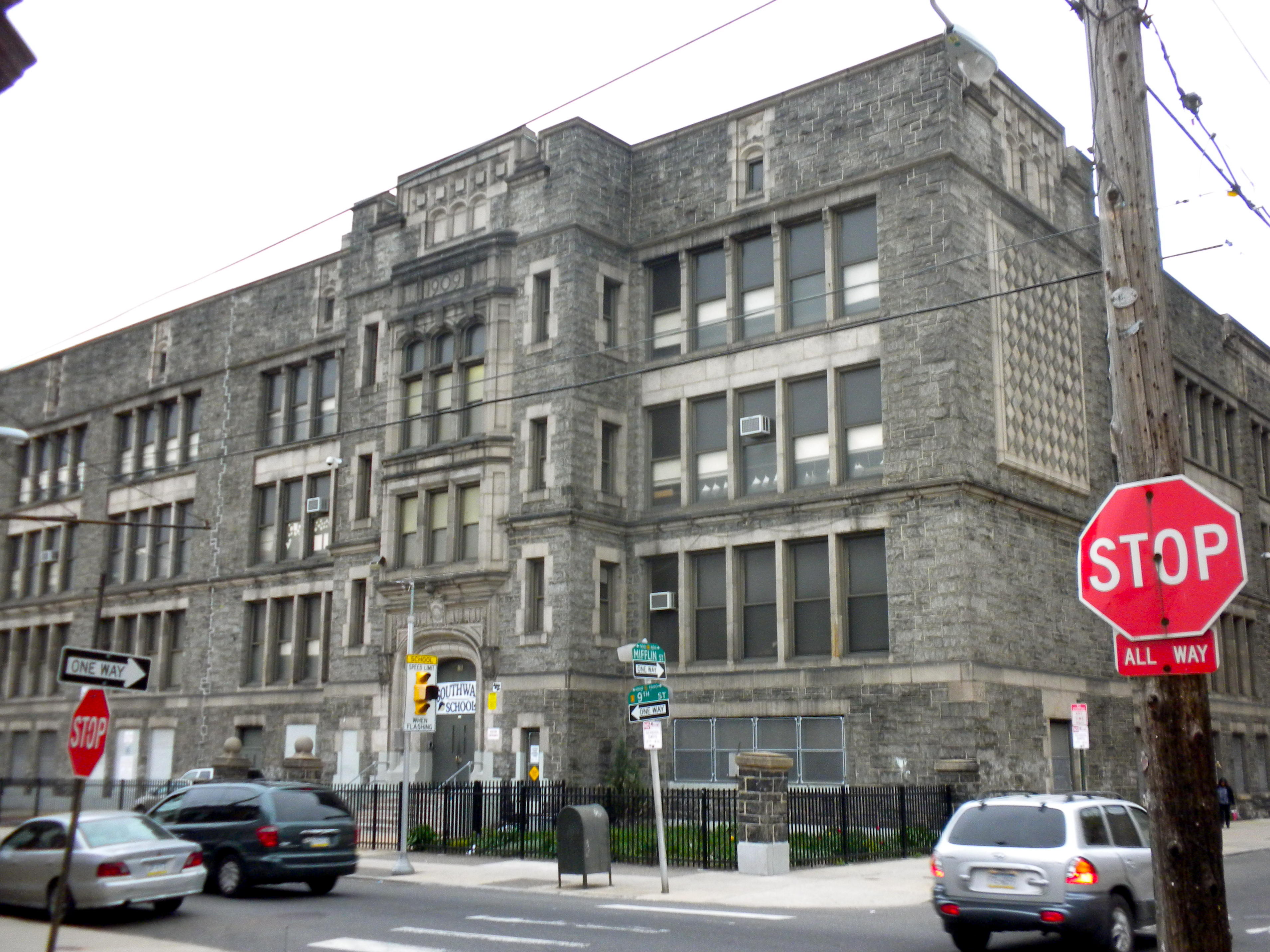 Southwark School on NRHP since December 1, 1986. At Eighth and Miflin Streets, Philadelphia, in Central South Philadelphia neighborhood